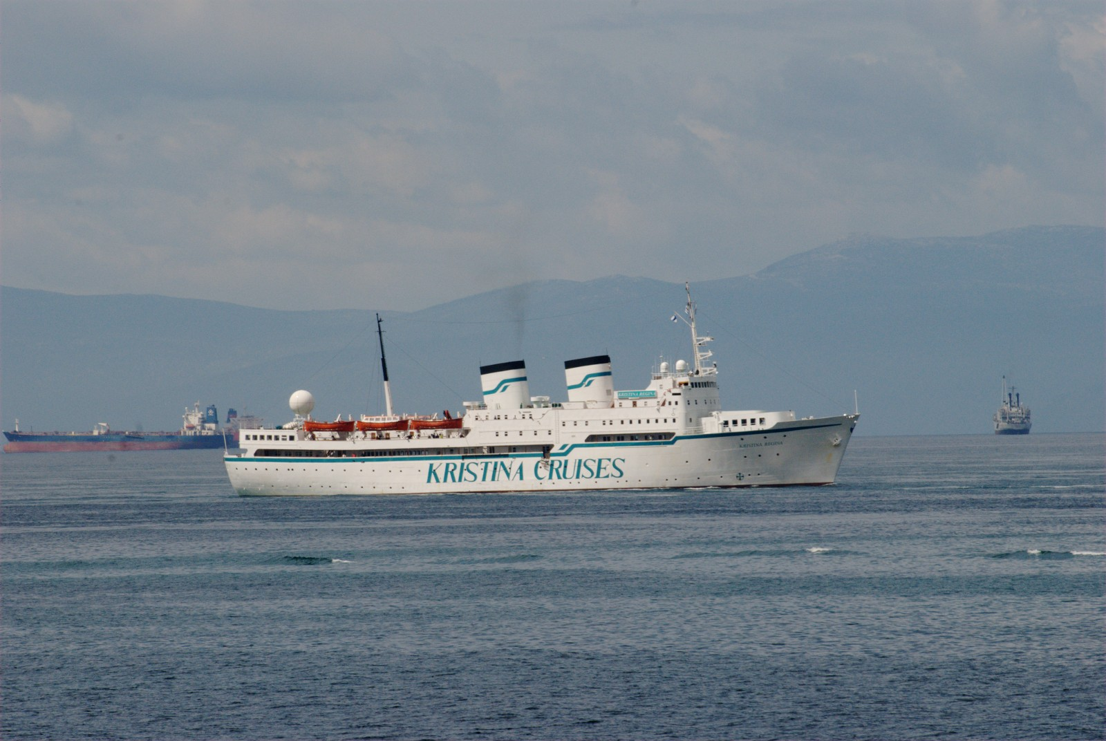 Cruise ship Kristina Regina, OGBF, IMO: 5048485, approaches Piraeus harbor. Information about Kristina Regina may be found at IMO 5048485. A ship can change her name and flag state through time, but the IMO number remains the same through the hull's entire lifetime. Therefore, it's useful to identify a ship through her IMO number.